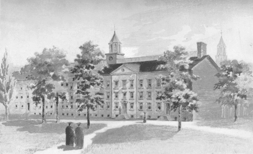 Illustration of King's College, New York City, about 1773, an illustration from Literary New York (1903)